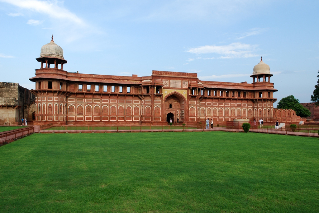 Jahangiri Mahal inside Agra Fort